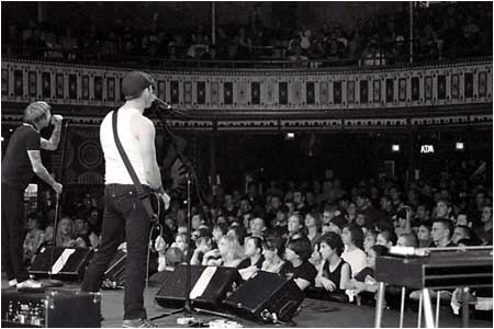 Taken by Jeremy Phillips, October 2004 at the Tabernacle in Atlanta, Ga